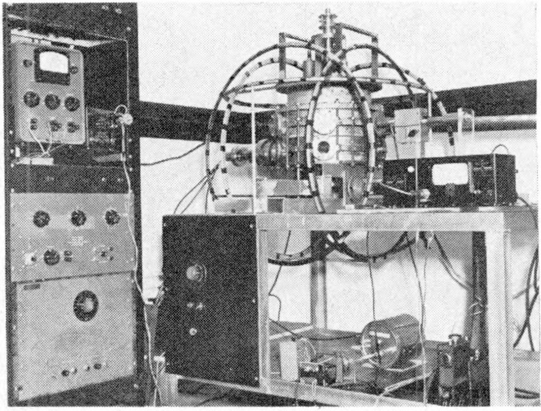 Research on free radicals in 1957 at the US National Bureau of Standards (now NIST) The radicals are bombarded with electrons inside the vacuum chamber (center). The chamber is surrounded by Helmholtz coils (hoops) on three axes which are adjusted to cancel external magnetic fields in the chamber. Caption: Apparatus for measuring the energy loss of bombarding electrons passing through a free radical condensate